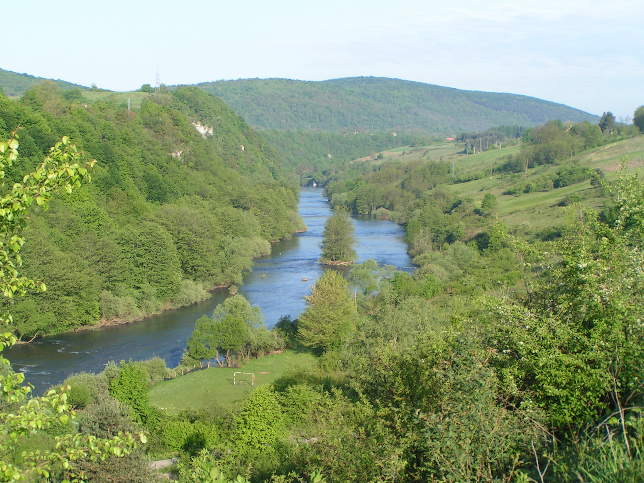 River Korana near Slunj, Croatia.